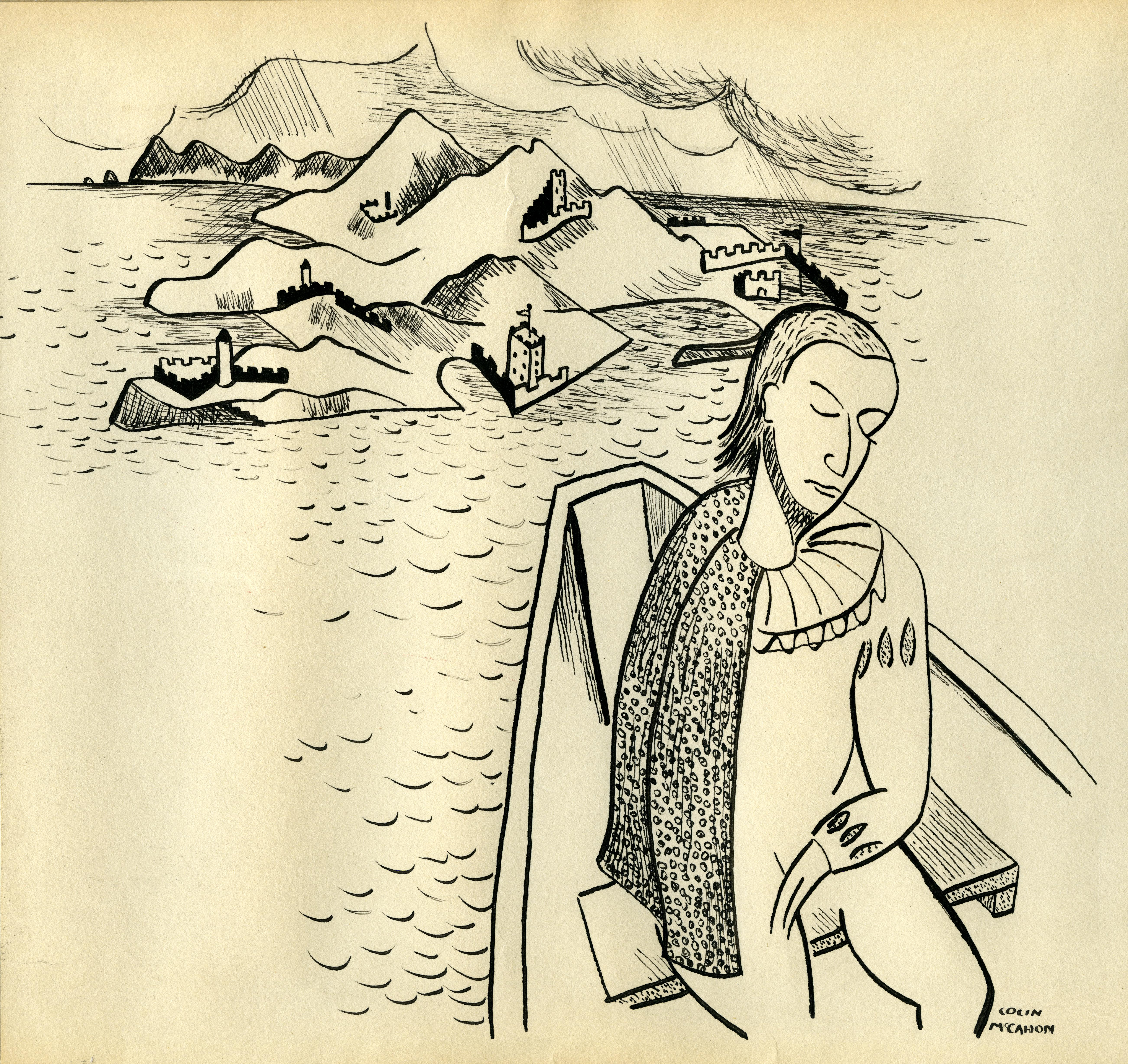 Colin John McCahon - one of New Zealand’s most celebrated modern artists - was born in Timaru on 1 August 1919. McCahon studied painting at the Dunedin School of Art in the late 1930s. He then moved around the South Island, before finally settling in Auckland where he lectured for at time at Elam Art School. McCahon became a leading figure in the modernist movement in New Zealand, and created several iconic representations of the New Zealand landscape. His works often featured words and numbers, and were characterised by strong religious and spiritual themes. This untitled illustration by McCahon was commissioned for the New Zealand School Journal, which was established in 1907 to encourage children to read. Provided free to primary and intermediate schools, it is New Zealand’s longest-running periodical and is still being produced today. As well as McCahon, a number of significant New Zealand writers and artists have contributed to the School Journal, such as Rita Angus, E. Mervyn Taylor, Jack Lasenby, Janet Frame, Margaret Mahy and James K. Baxter. The exact date of this image is unknown but it is located within a series of School Journal illustrations dated from 1940 -1950. This series can be searched by name online at Archway, some of the illustrations have only the artist's name pencilled on the back and others have the publication and date. Archives Reference: AAAD 781 W2708 10/C For updates on our On This Day series and news from Archives New Zealand, follow us on Twitter Material from Archives New Zealand